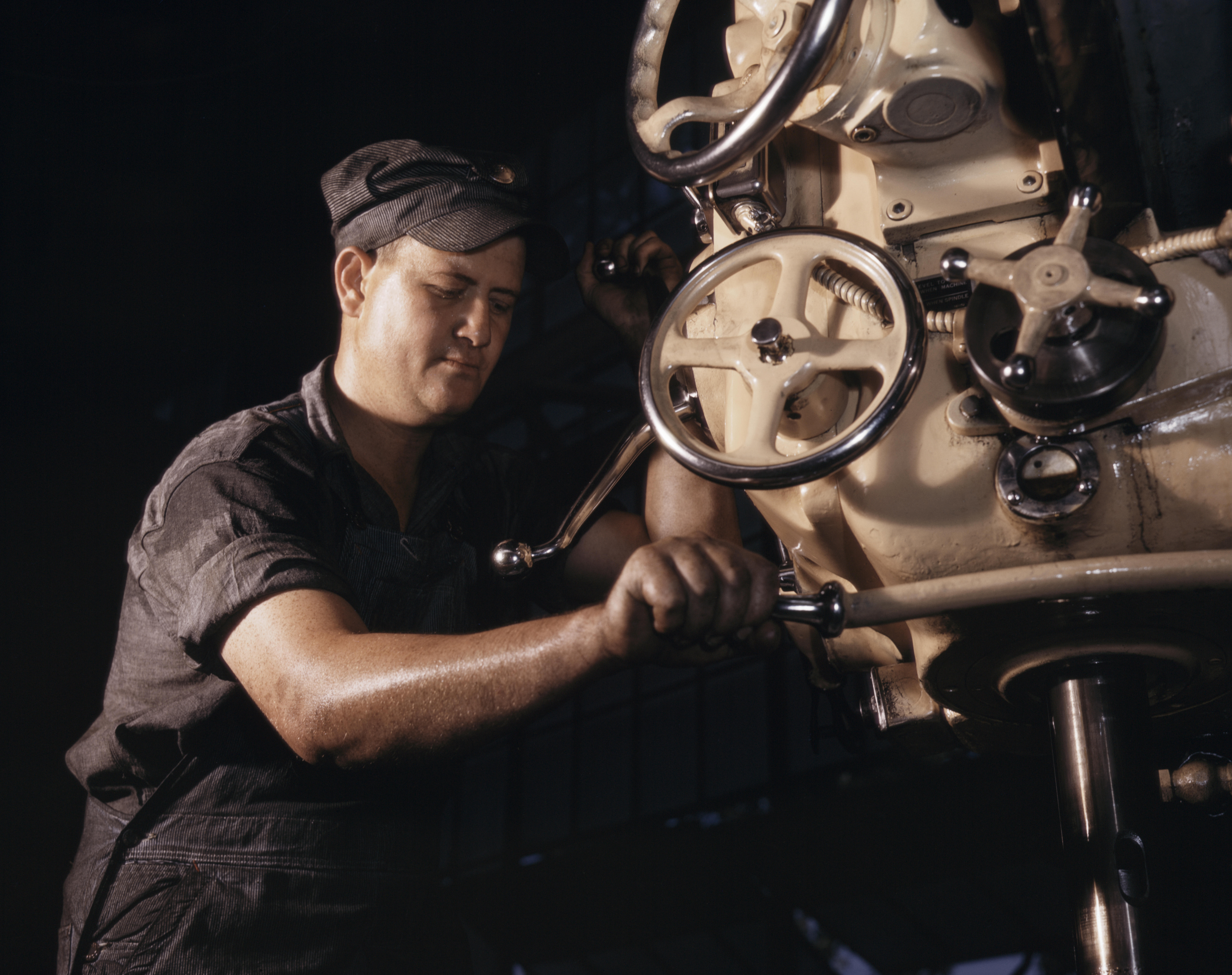 Mechanical operator on boiler parts, Combustion Engineering Co., Chattanooga, Tenn